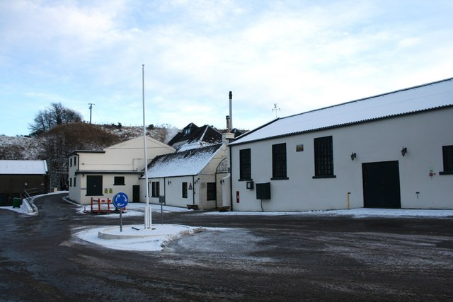 Cragganmore Distillery The main block of Cragganmore distillery with the warehouses out of sight to the left.